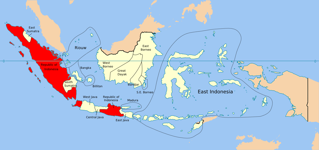 Map of Republik Indonesia Serikat (or Republic of the United States of Indonesia).